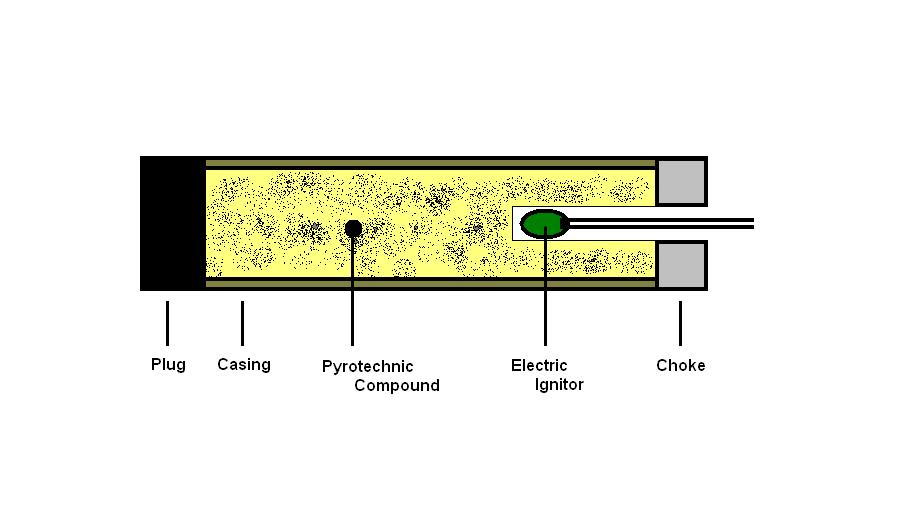 Schematic of basic pyrotechnic gerb